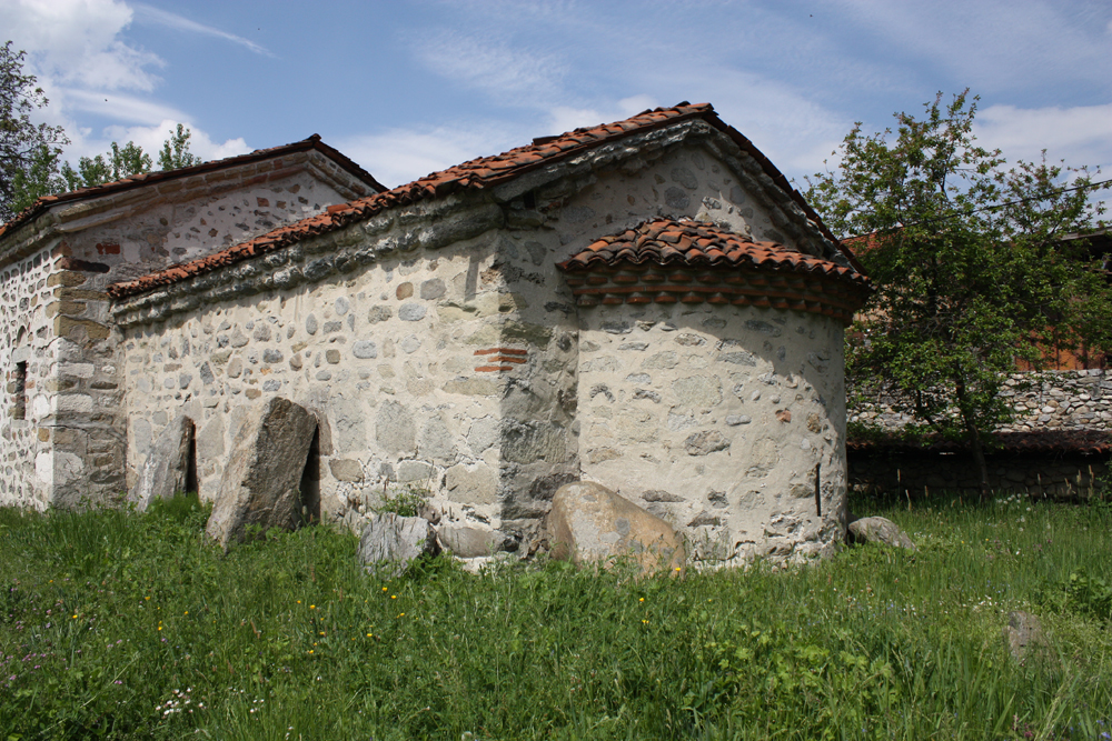 The Medieval part of Sant Nicolas Church in Maritsa village, Bulgaria